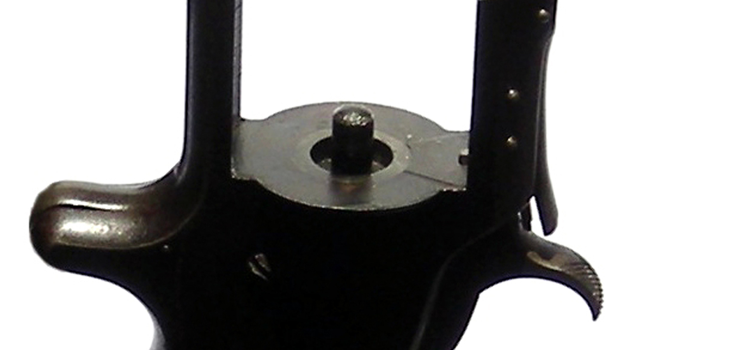 S&W Army2 frame detail